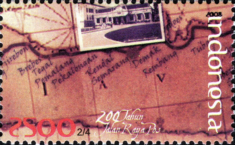 Stamps of Indonesia